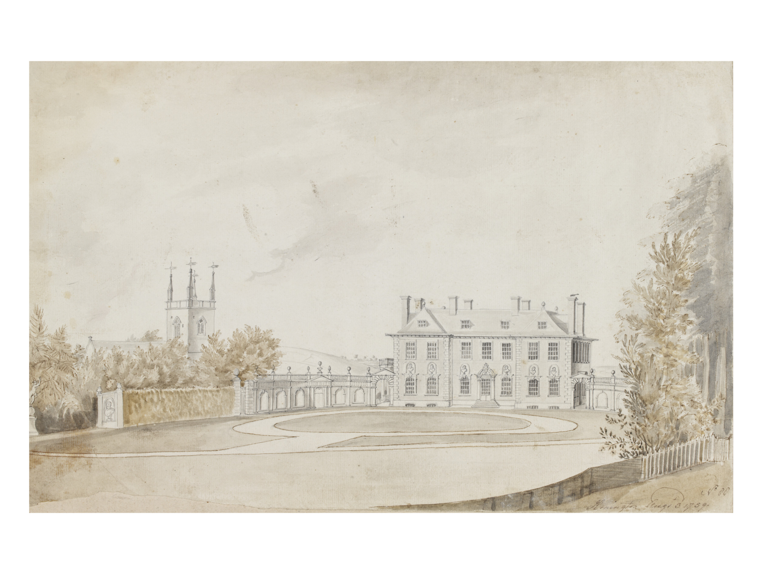 Drawing of Honington Hall, Warwickshire, by Thomas Robins. Honington Hall was built in the early 1680s for Henry Parker and modified in 1751 when an octagonal saloon was inserted.